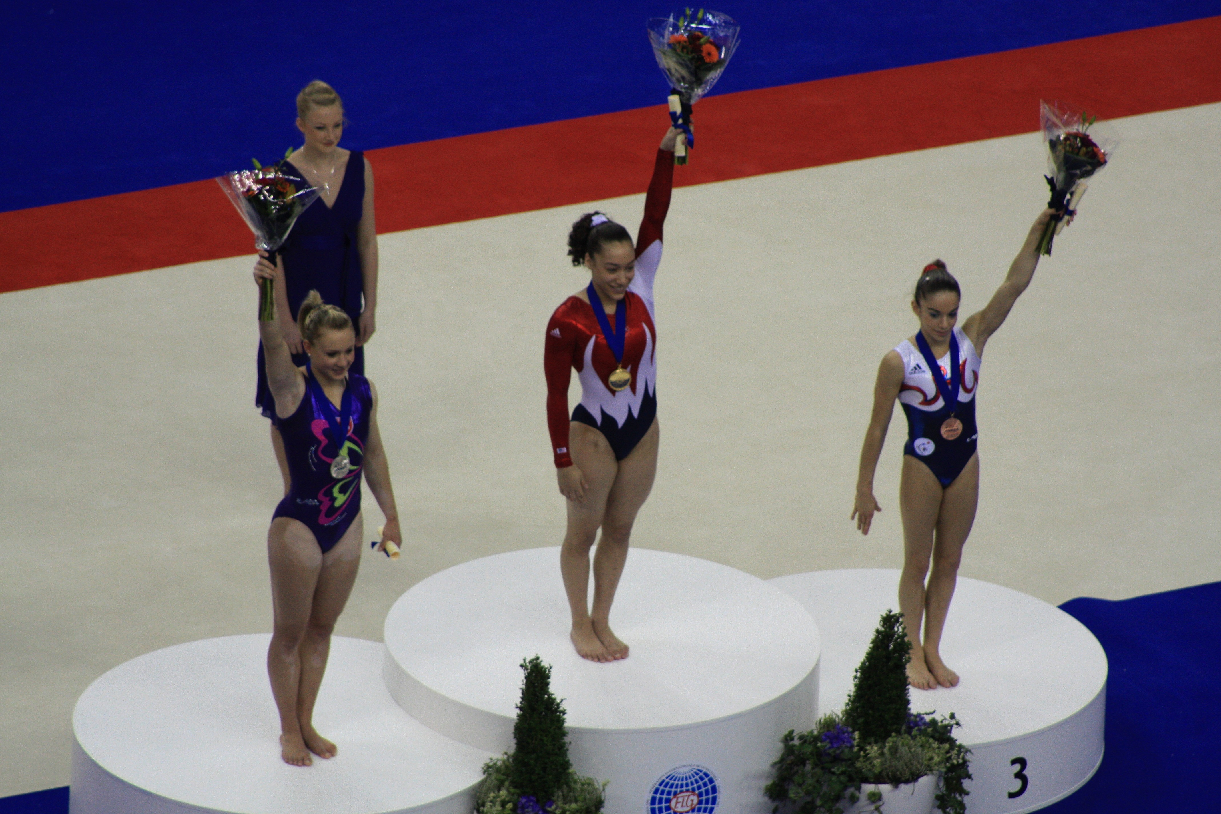 Podium of the female vault at the 2009 World Artistic Gymnastics Championships. From left to right: Ariella Kaeslin (Switzerland, 2nd place), Kayla Williams (USA, 1st place) and Youna Dufournet (France, 3rd place).